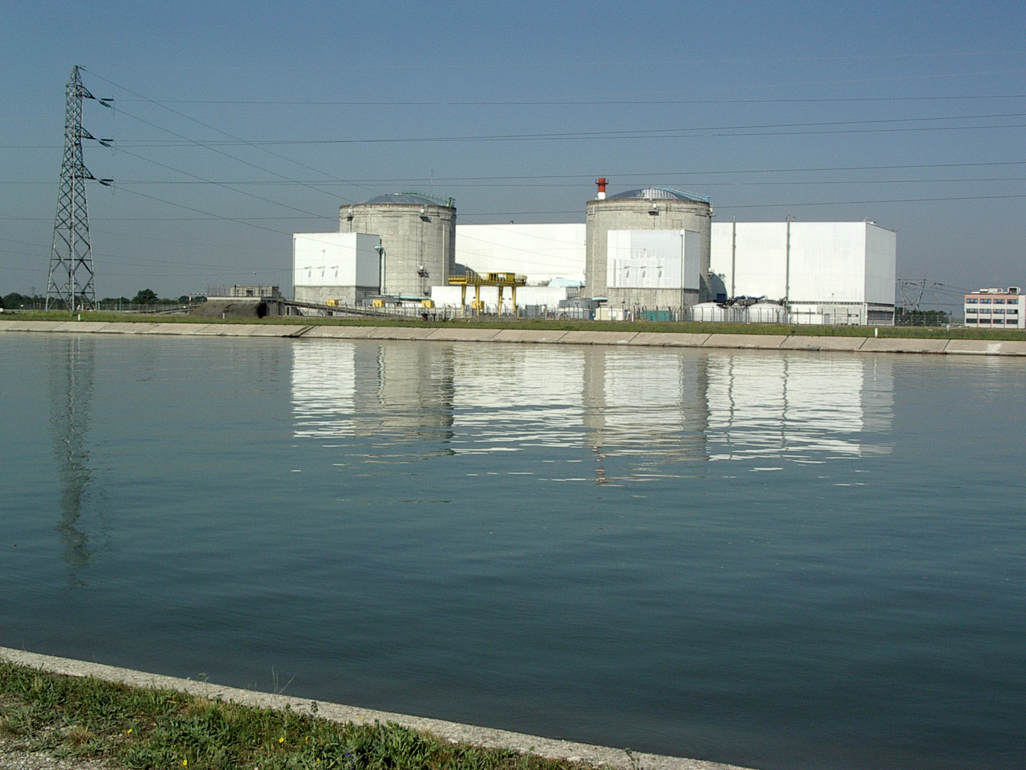 Nuclear power plant Fessenheim, Haut-Rhin, Alsace, France